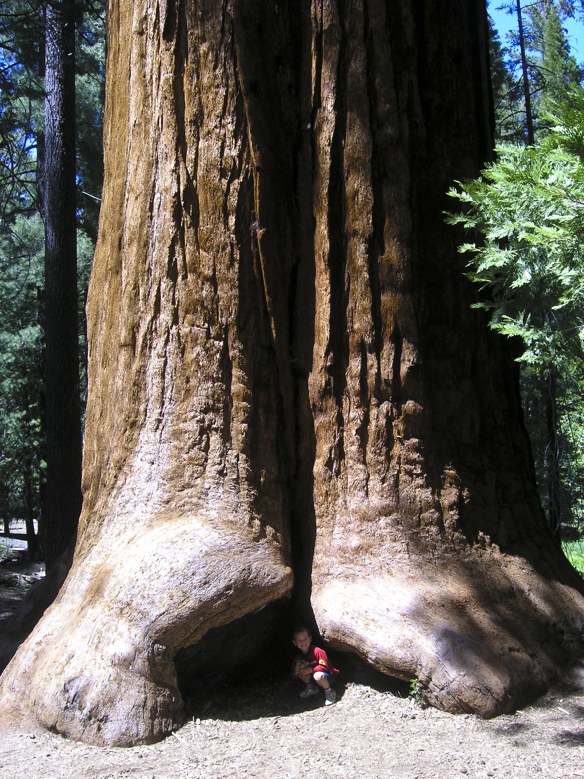 The Proclamation Tree of Long Meadow Grove in Giant Sequoia National Monument, California.